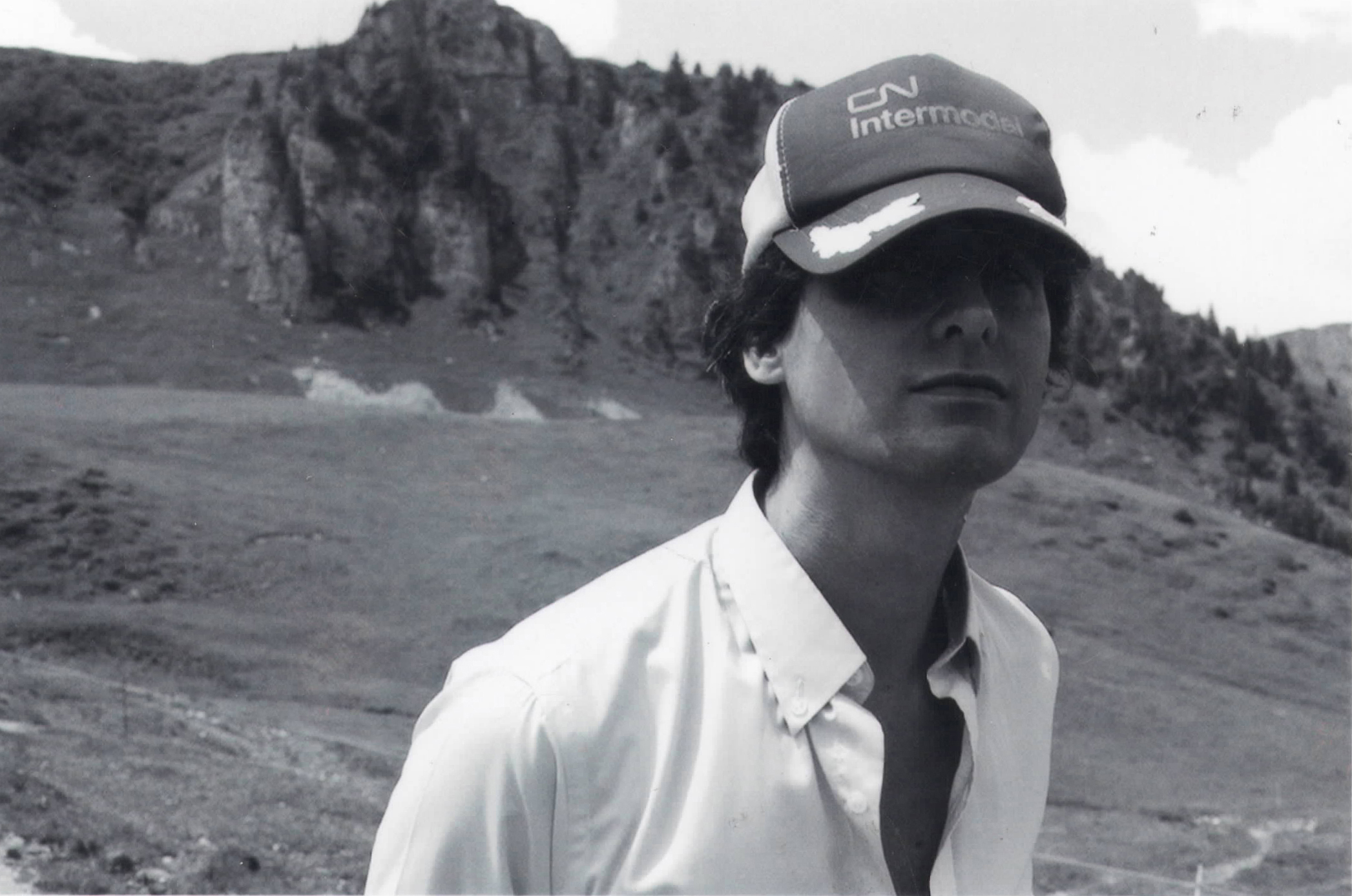 A picture taken on set in switzerland near Locarno